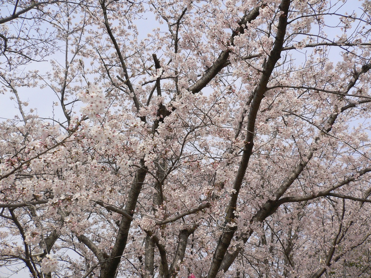 Sakura in Hayashima Park, Hayashima Town, Tsukubo District,Okayama,Japan.